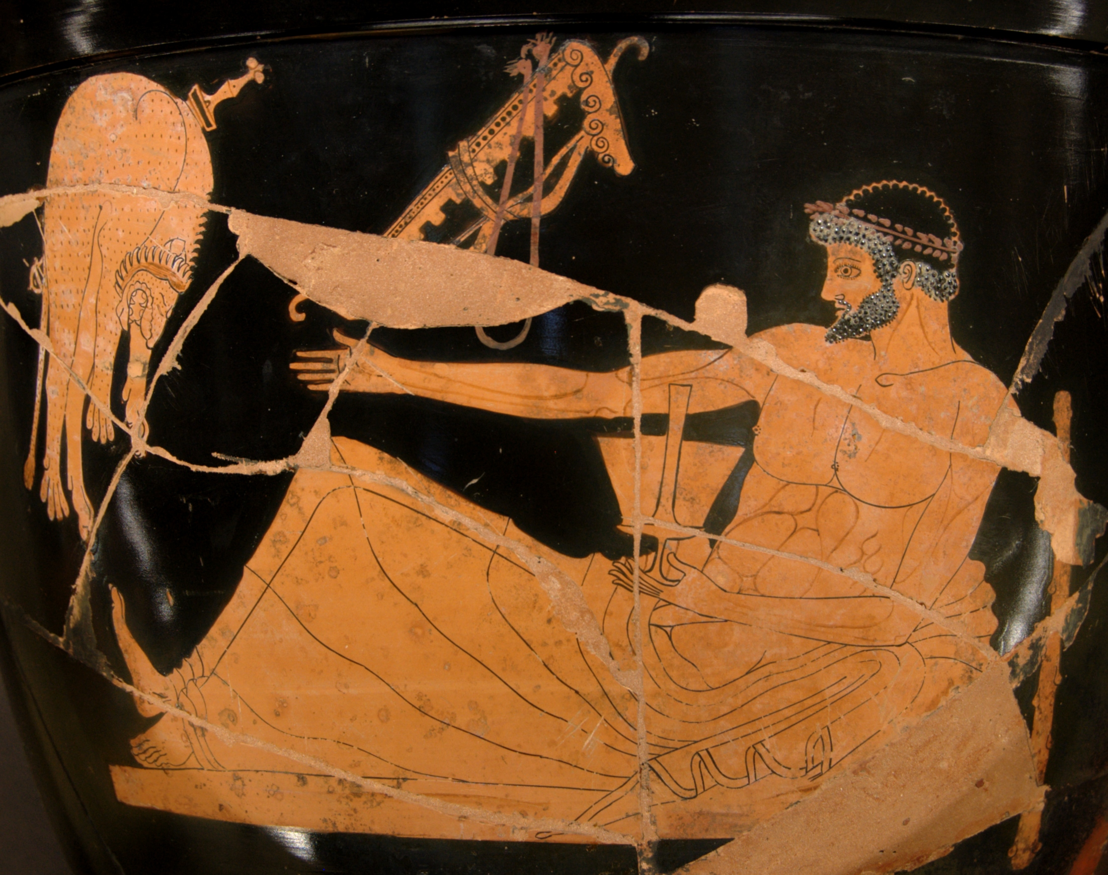 Herakles at a symposium. Side A of an Attic red-figure bell-krater, ca. 500-490 BC. From Athens.